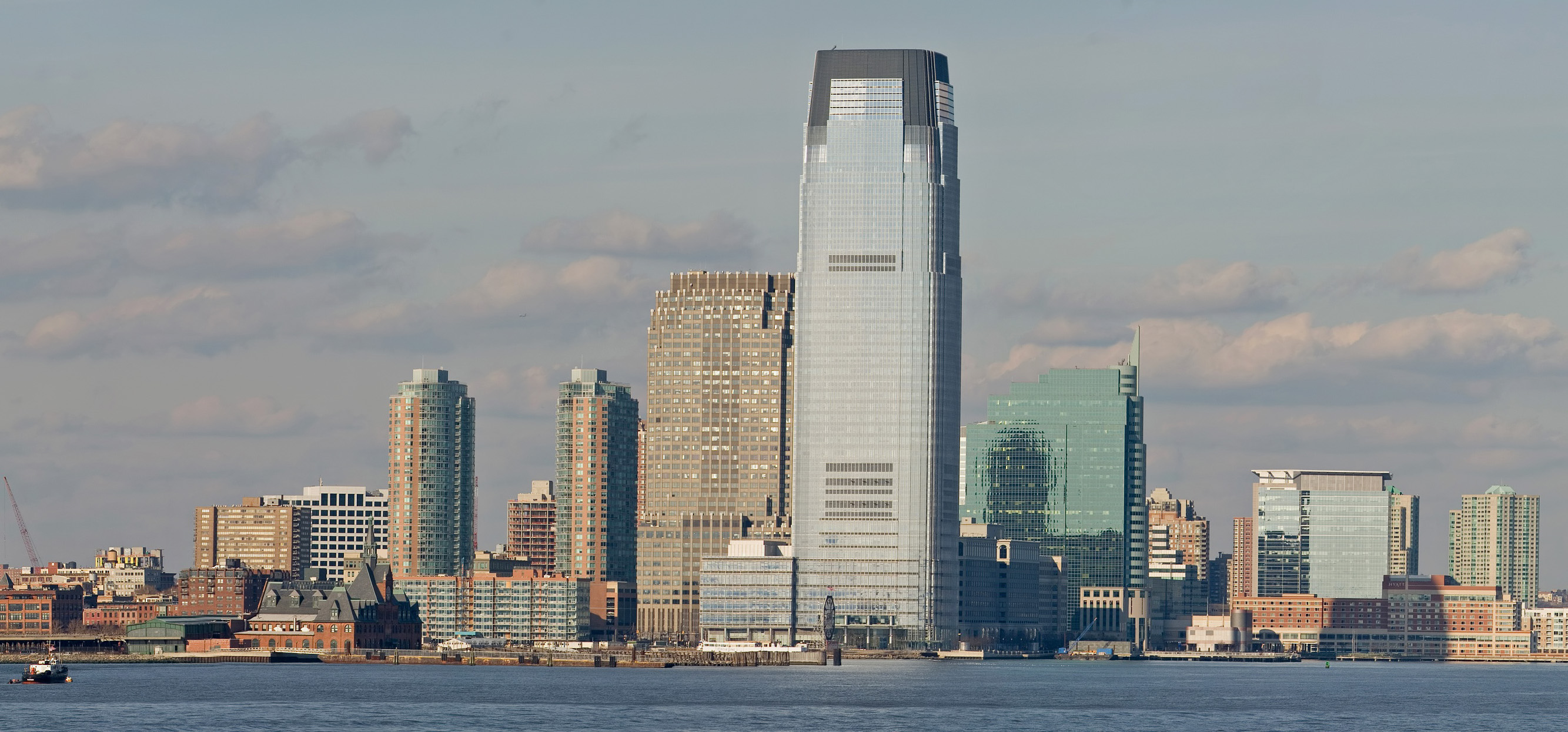 A crop of a panorama taken by myself with a Canon 5D and 70-200mm f/2.8L @ 200mm.